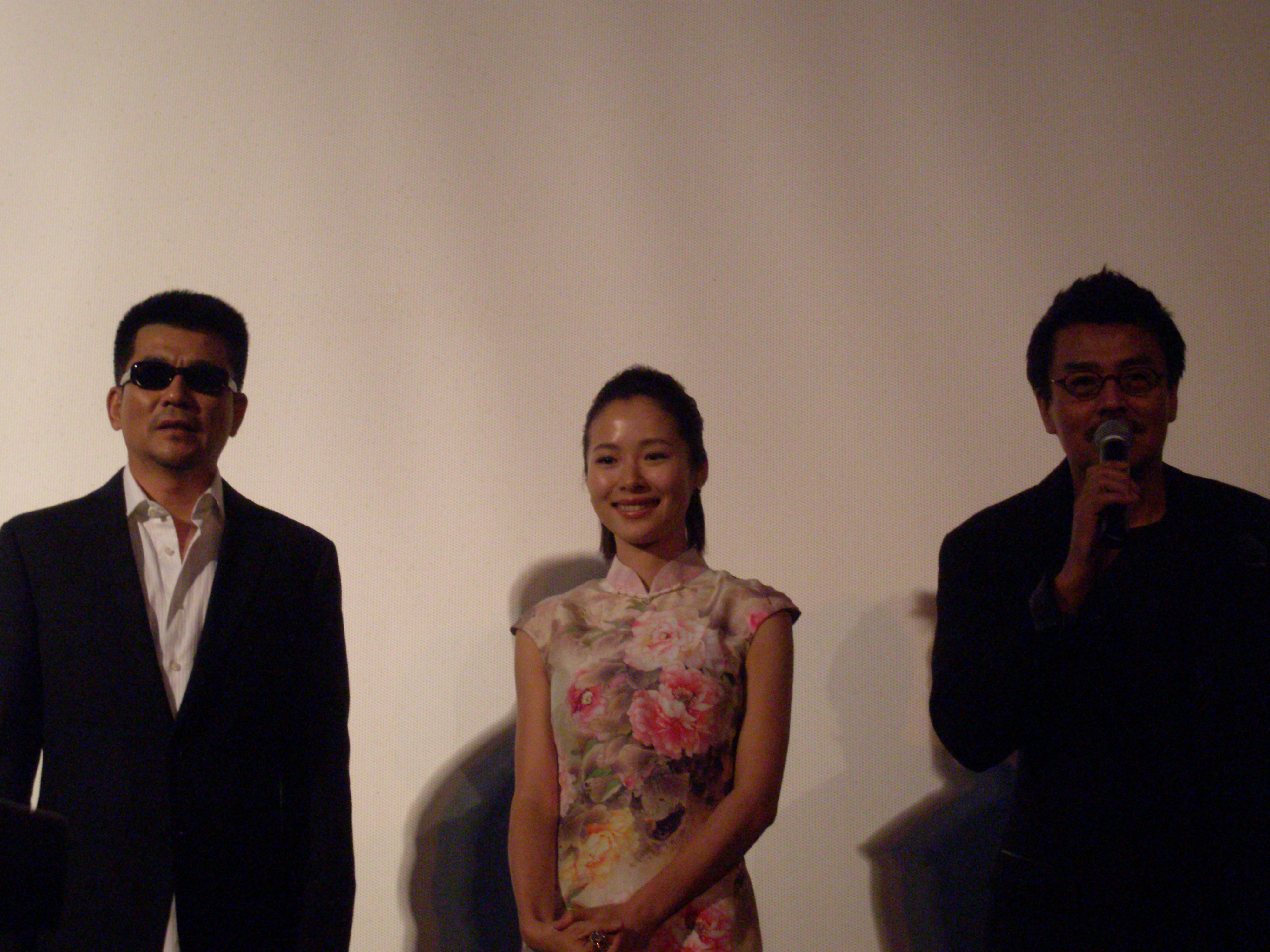 《qiu xi》 Sun Chun、Jiang YiYan、Sun Zhou